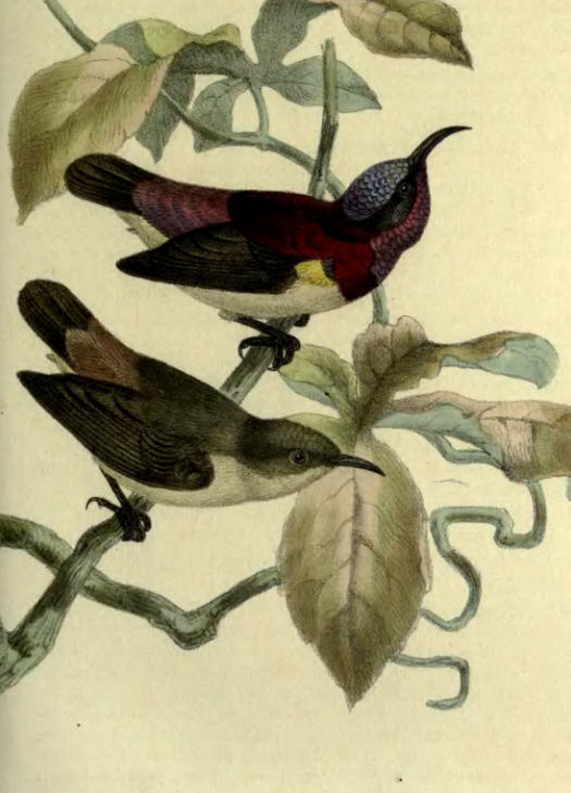 Crimson-backed Sunbird or Small Sunbird (Leptocoma minima)